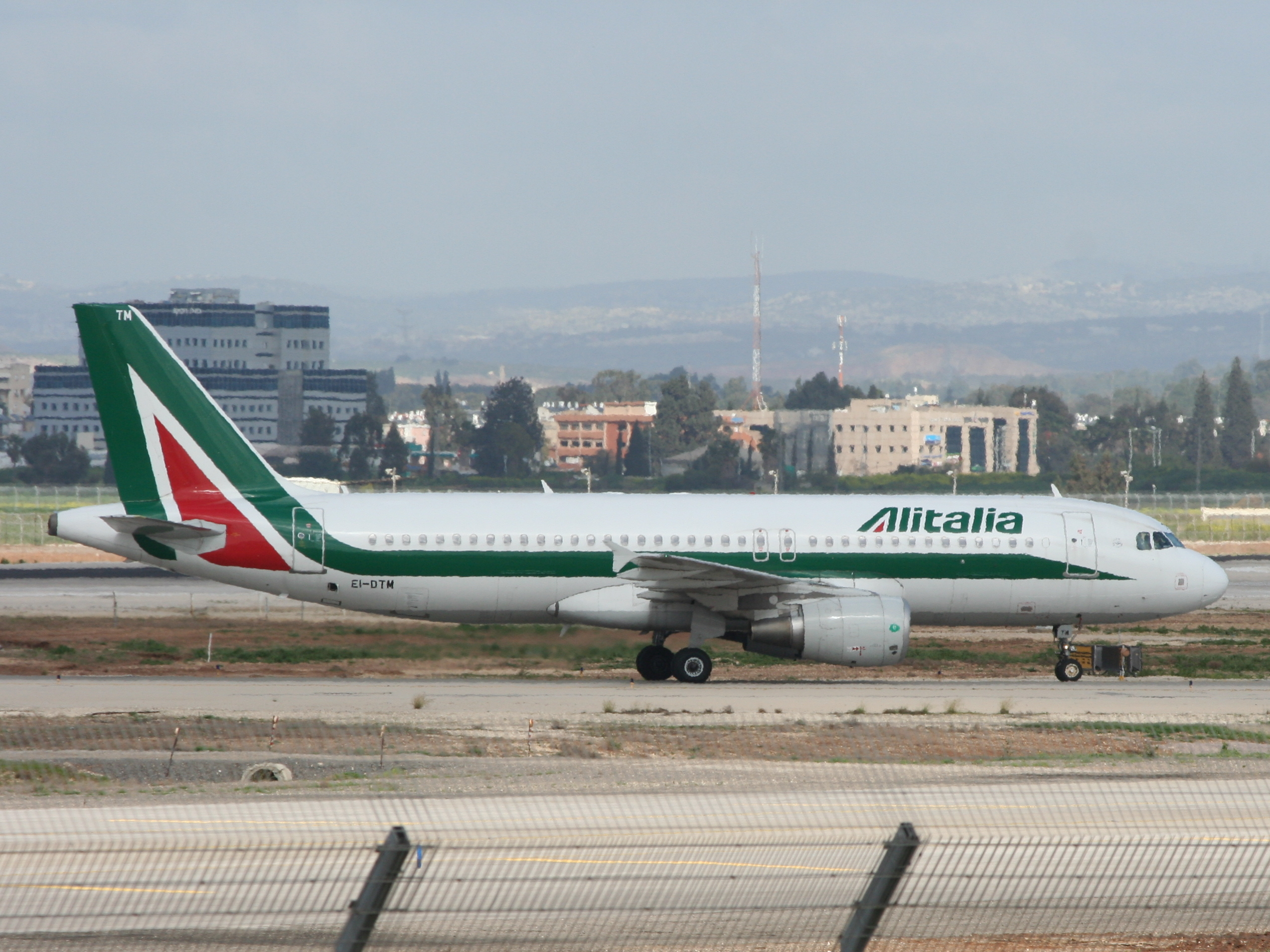 Spotting at Ben Gurion International airport